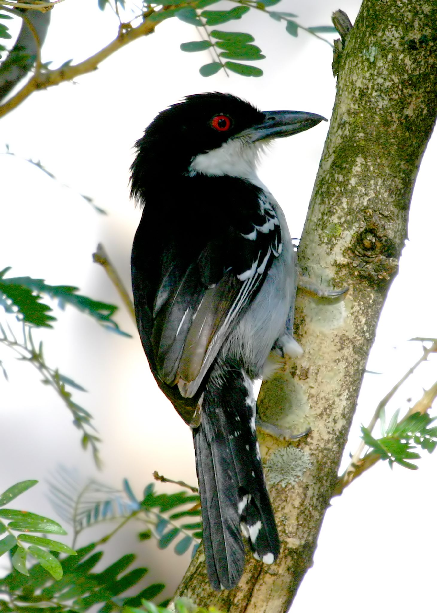 Great Antshrike (Taraba major) Fotografado na Chapada dos Veadeiros, no povoado de São Jorge, em Alto Paraíso de Goiás (GO), Brasil.